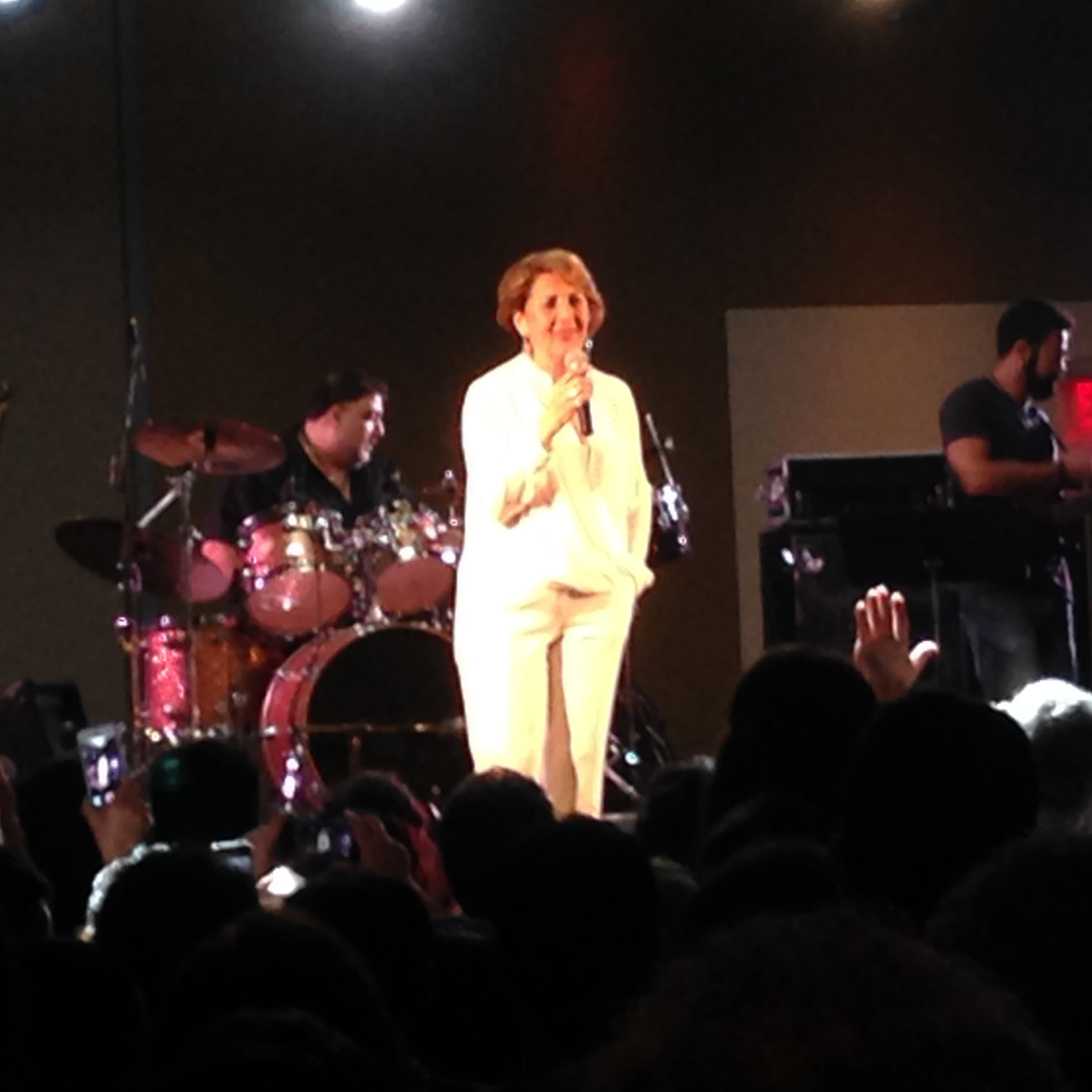 Nooshafarin concert in Houston, Texas.